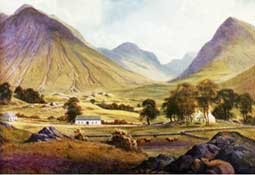 Glencoe, Edwardian painting of the site of the infamous 1692 massacre of the MacDonald clan in Glen Coe, Argyll. This picture is the copyright of the Lordprice Collection and is reproduced on Wikipedia with their permission.